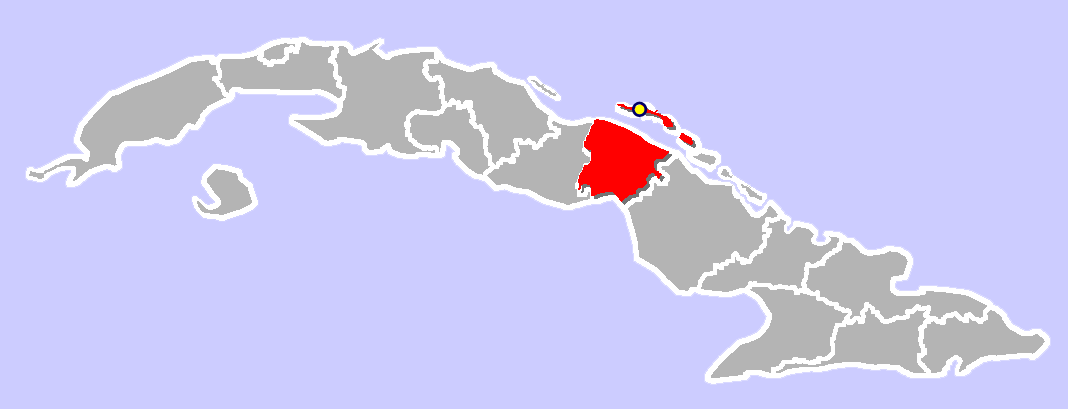 Location of Cayo Coco, Cuba